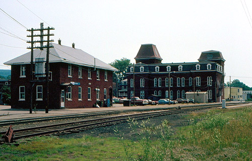 Amtrak station in St. Albans, Vermont, in 1979; the present station house is on the left, and the headquarters of the New England Central Railroad is on the right.